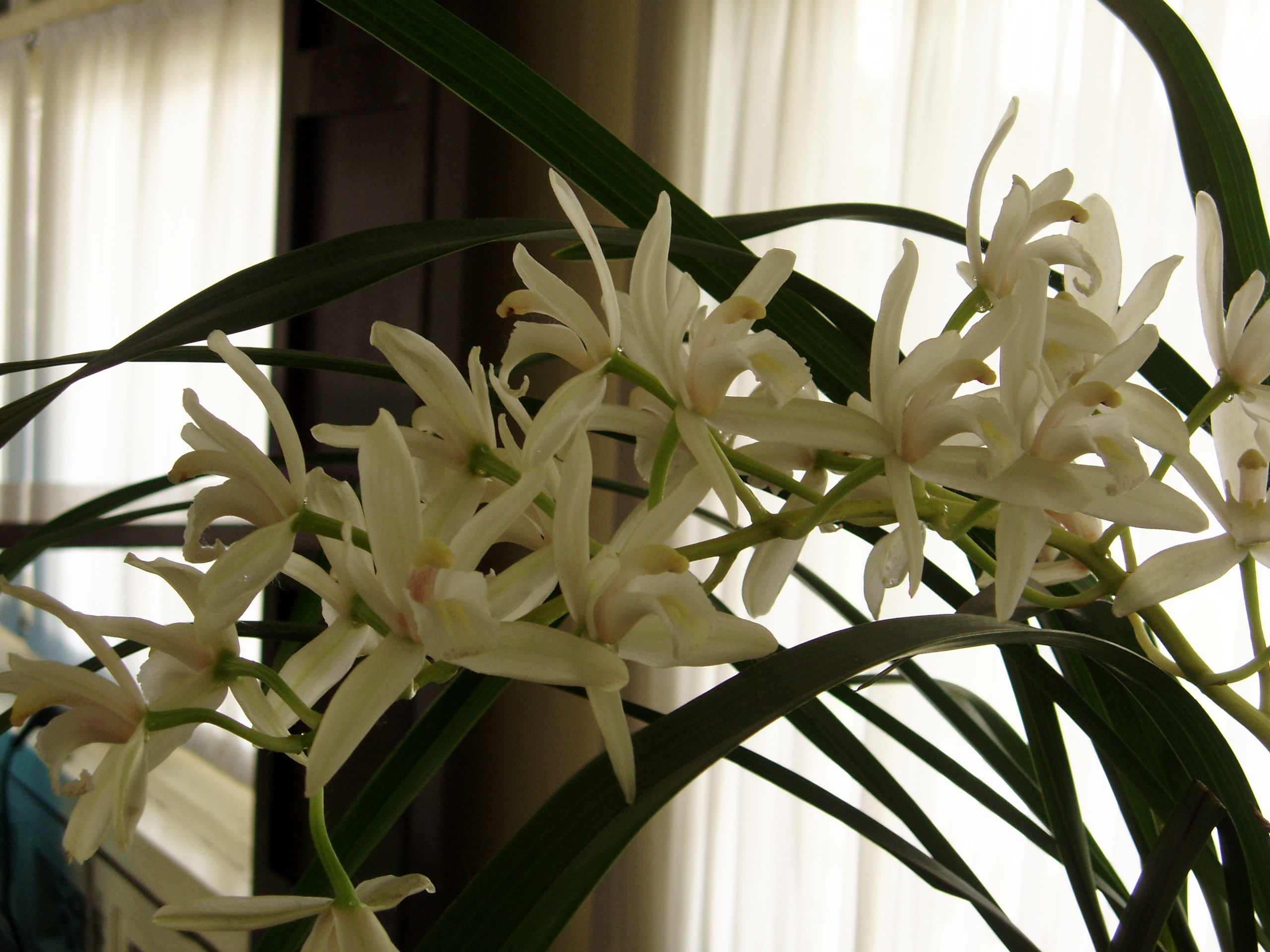 Yellow margin orchid